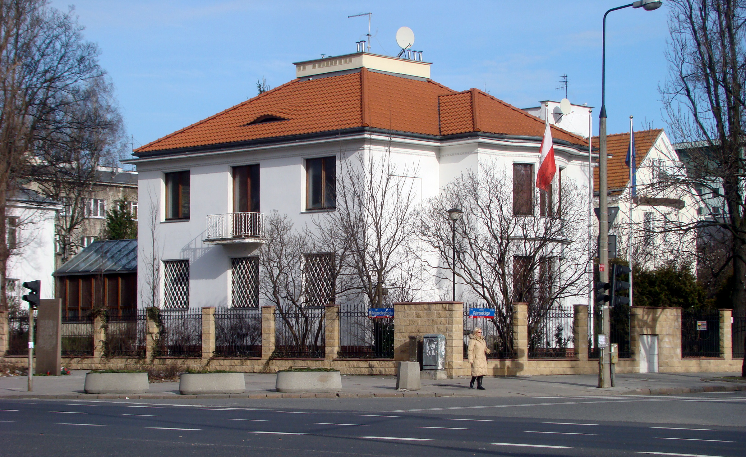 Villa of Stefan Starzyński